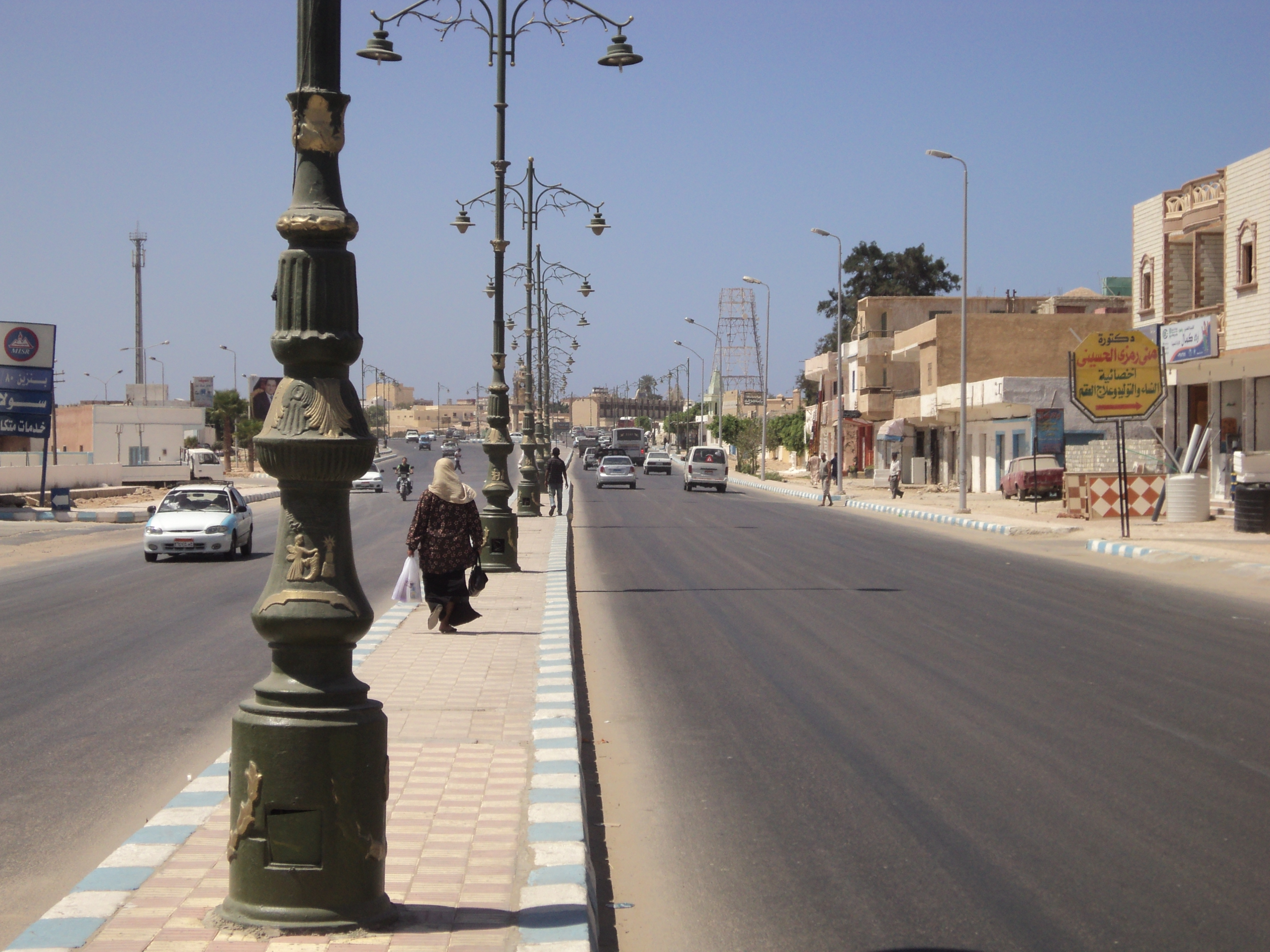 The Egyptian city of Mersa Matruh.